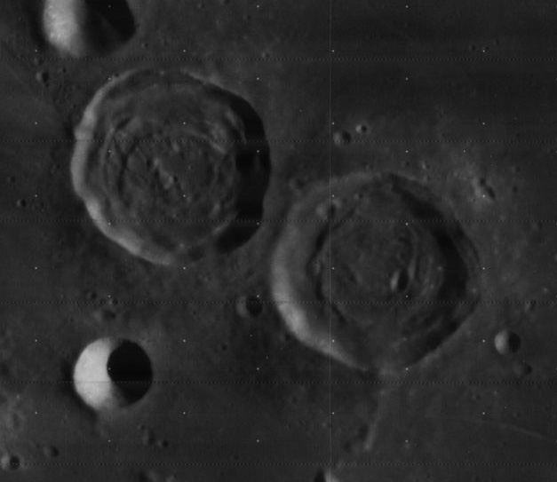 Sabine, Ritter, and Schmidt on the moon. On page 97 of The Moon as Viewed by Lunar Orbiter (L. J. Kosofsky and Farouk El-Baz, NASA SP-200, 1970), a substantial portion of this image is shown with the following caption: "The unusual craters Sabine (right, 30 kilometers across) and Ritter, at the southwest edge of Mare Tranquilitatis. A possible volcanic origin of these craters is suggested by their relatively high floors, arcuate internal ridges, apparent lack of secondary craters, and close resemblance to each other. These characteristics resemble those of terrestrial calderas. Similar pairs exist on the moon's far side. Location: 1 (deg) 40' N, 19 (deg) 40' E. Framelet width: 12 kilometers."